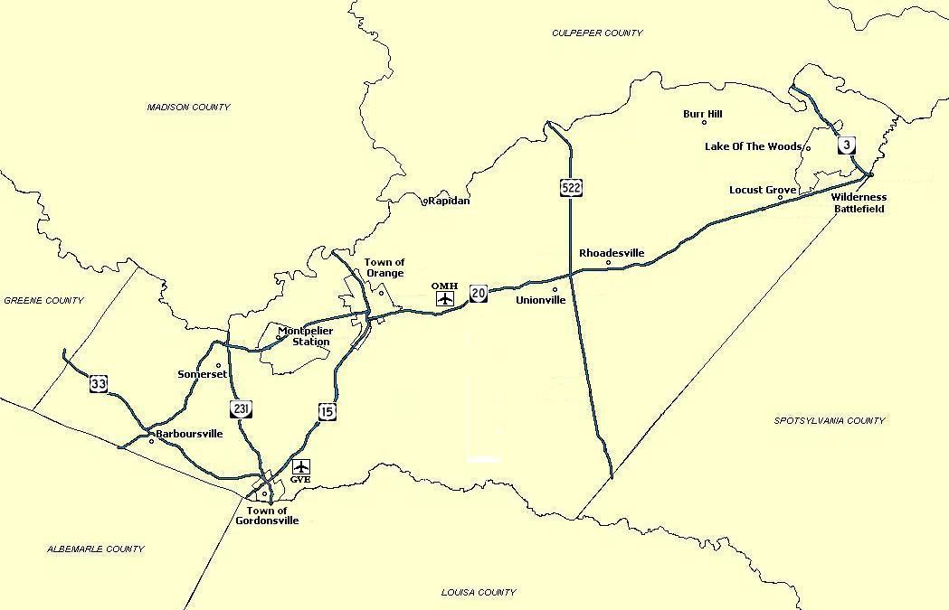 A basic map of the county showing major roads and areas